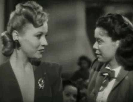 Anne Jeffreys (left) and Marcy McGuire in Sing Your Way Home - trailer (cropped screenshot)